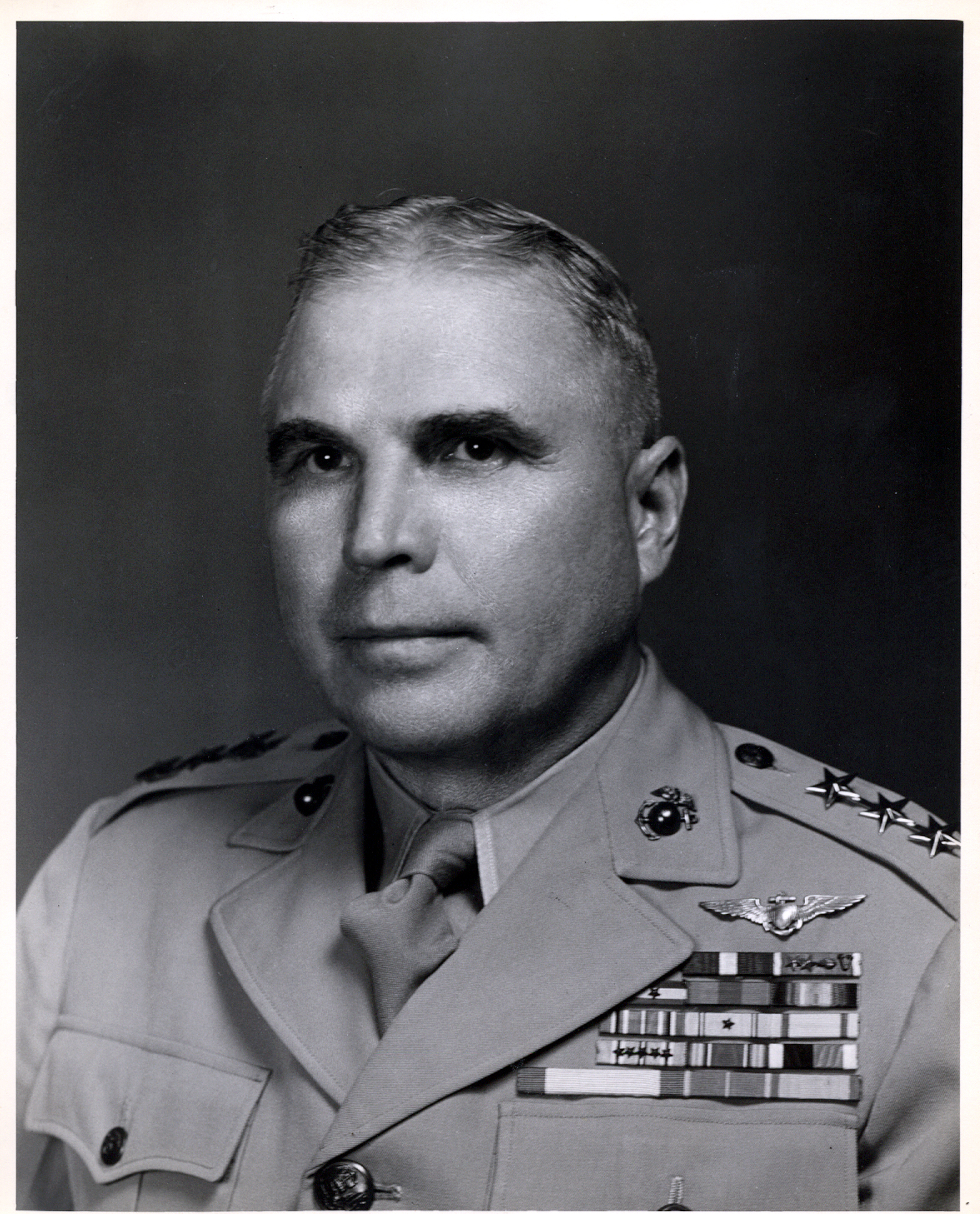 LtGen Louis E. Woods, USMC (1895-1971)